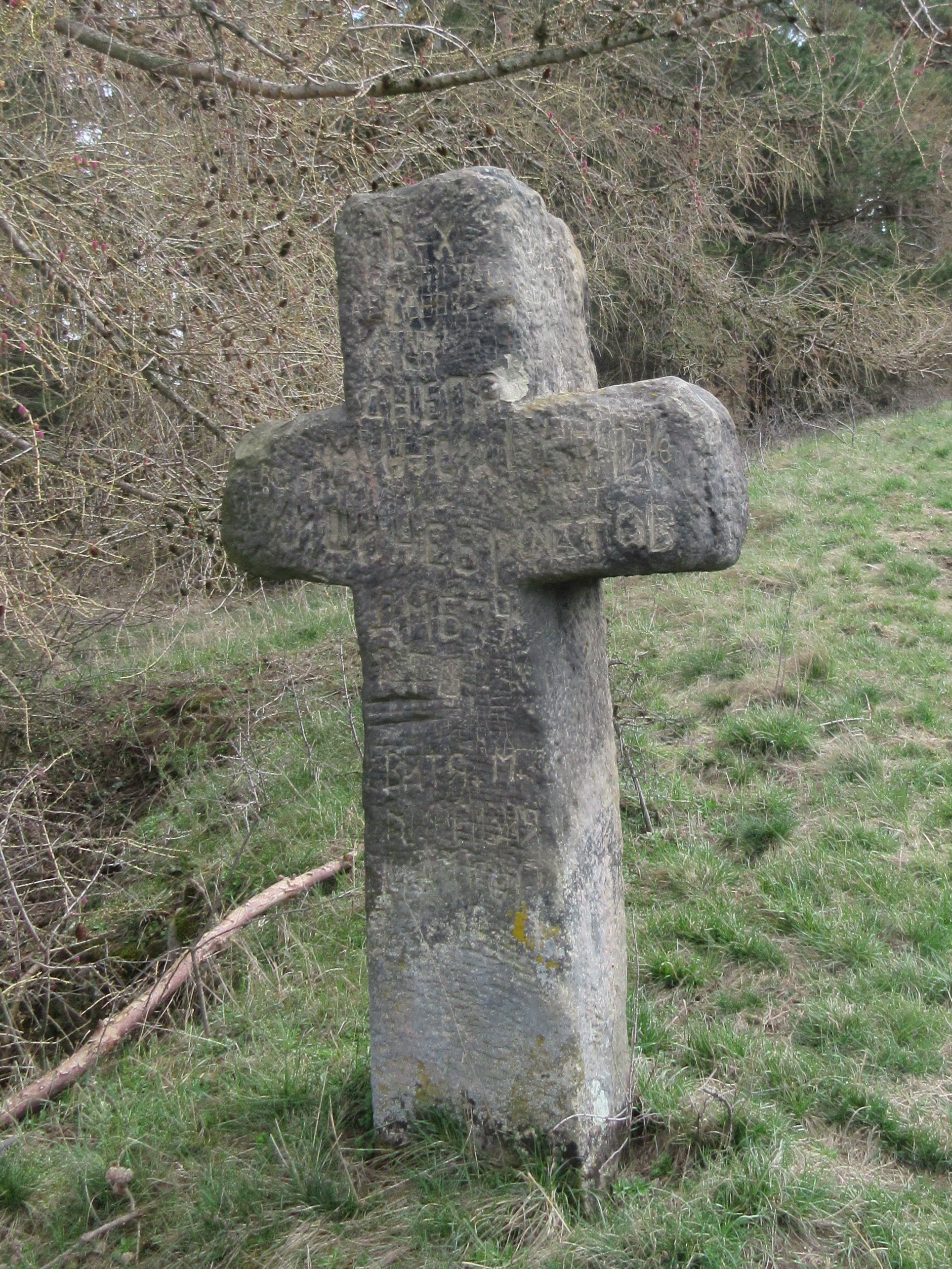 "Zimmermannskreuz" on the mountain "Ebanotte" on the territory of gossel